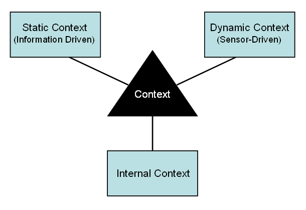 Diagram showing elements of contextual awareness (image derived from :Li, Ki-Joune. 2007. Ubiquitous GIS, Part I: Basic Concepts of Ubiquitous GIS, Lecture Slides, Pusan National University)